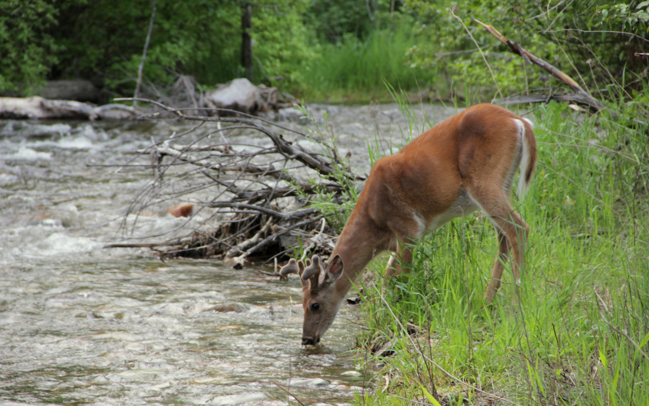 A white-tailed deer drinks from the Rattlesnake Creek in Greenough Park, Montana, 11 June 2014